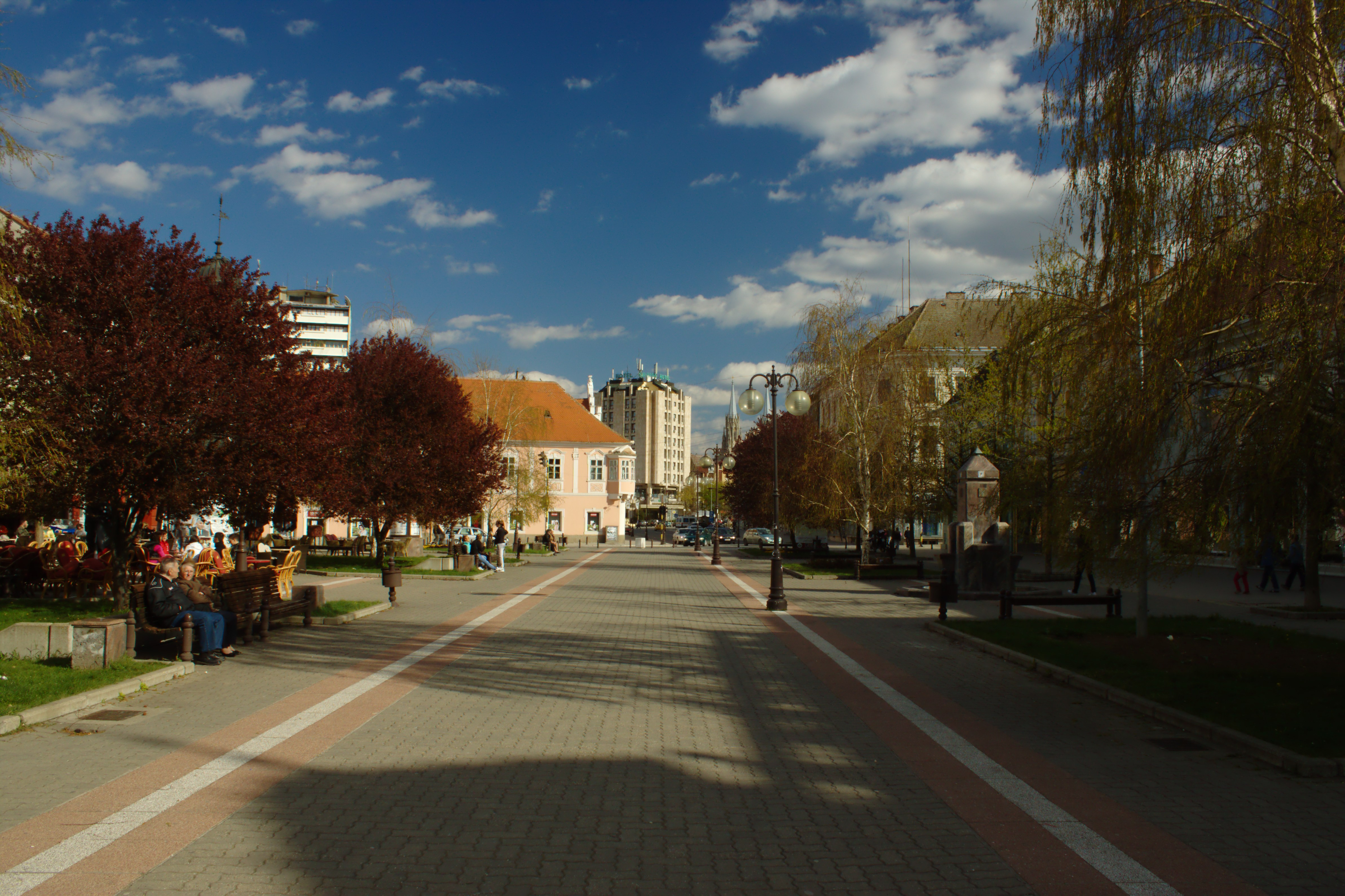 Pedestrian zone in the historic centre of the town of Vršac, Vojvodina, Serbia